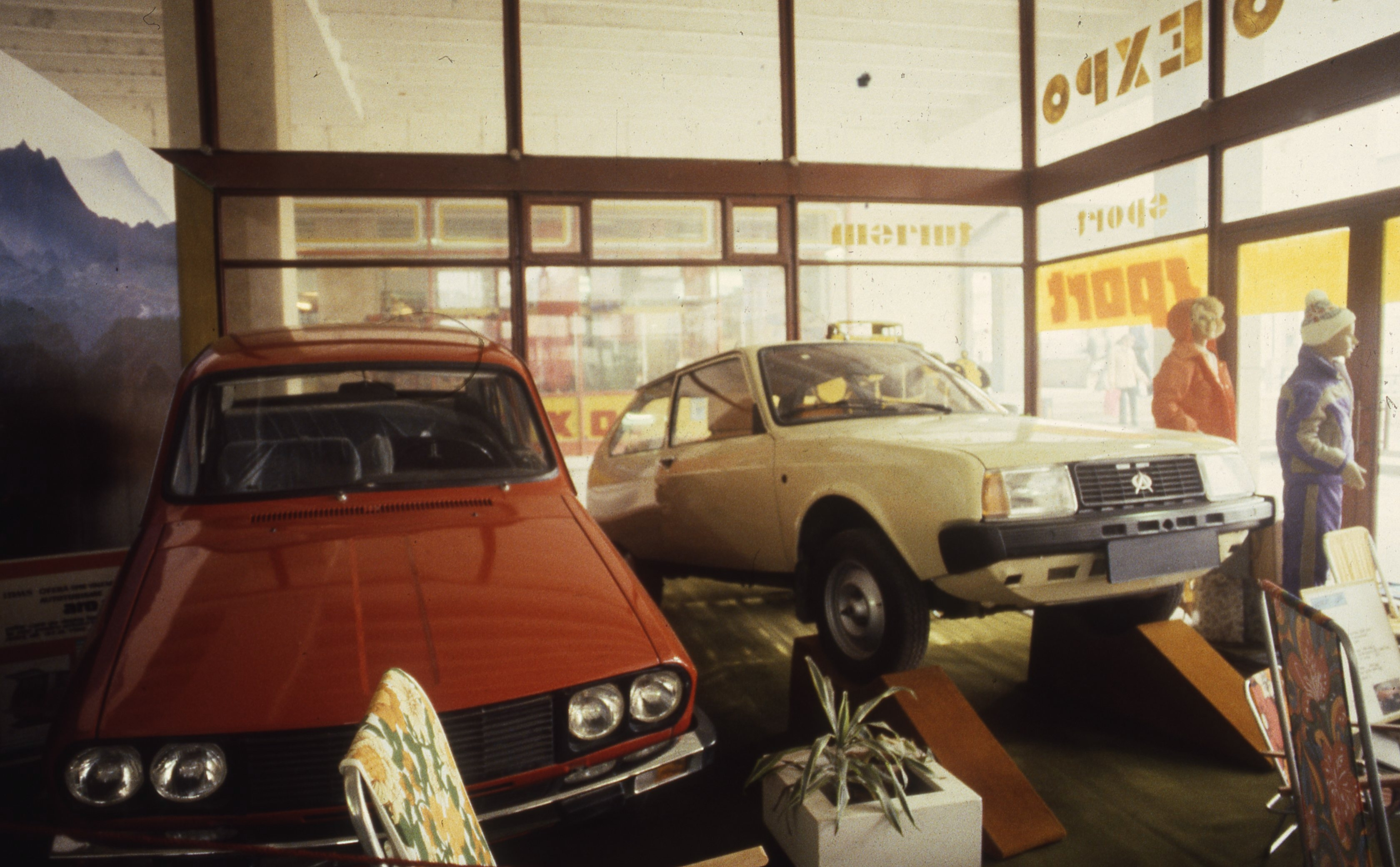 Tags: Dacia-brand, Oltcit-brand, Romanian make, colorful, car dealer